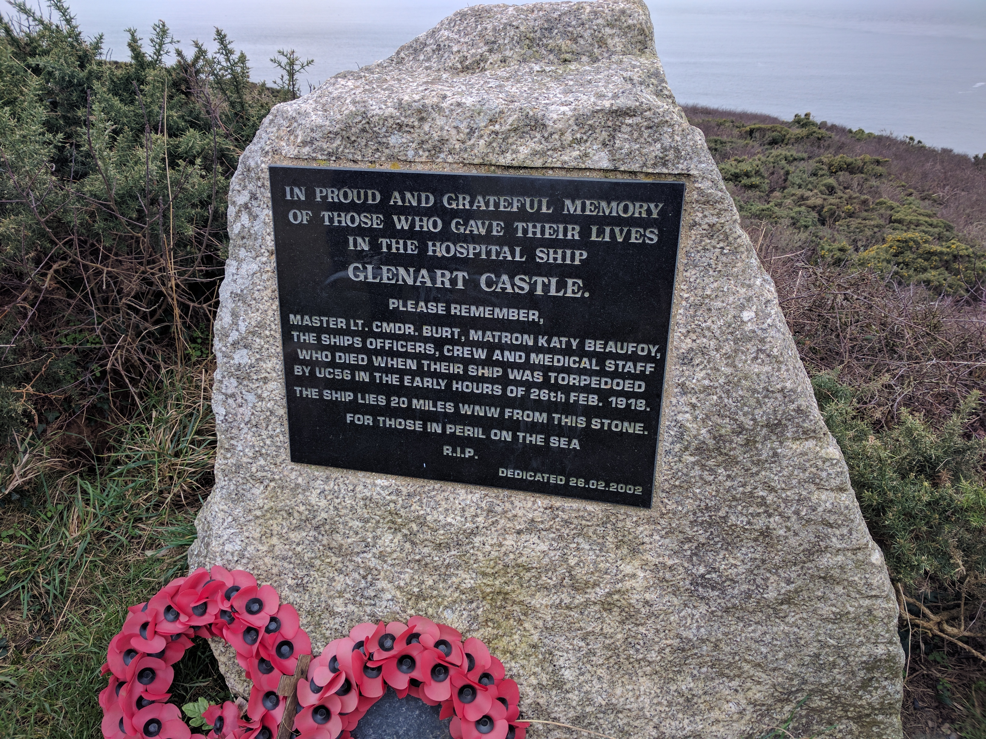 Memorial stone to the victims of the HMHS Glenart Castle, sunk by the German U-boat UC65 on 26th Feb 1918